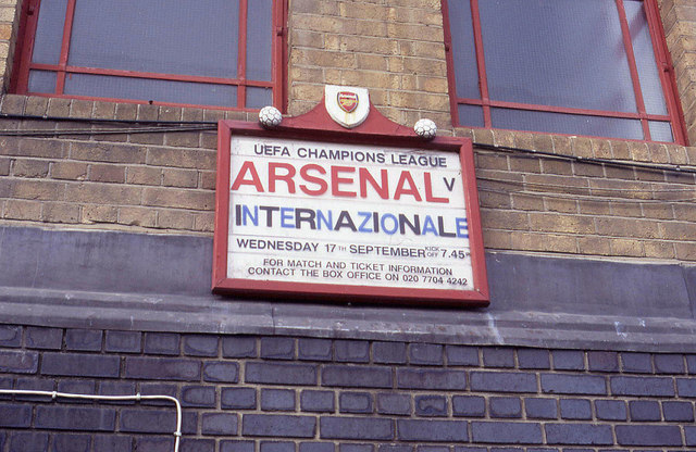 Sign, Highbury Stadium Nostalgic sign for all things Gunners - even if I do support Leeds United